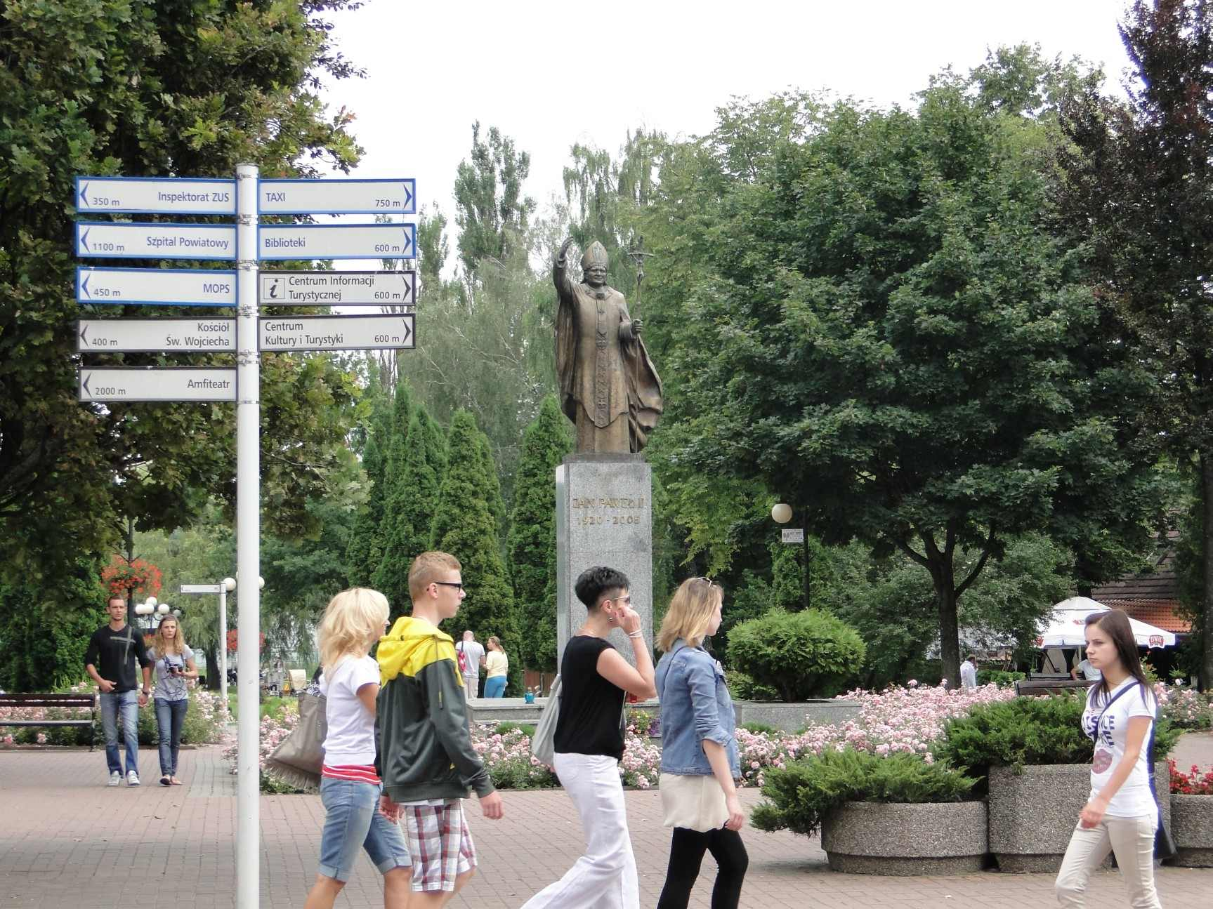 John Paul II Monument in Mrągowo, Poland.